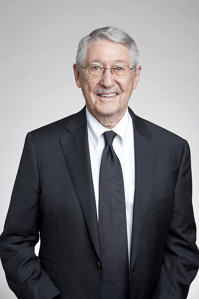 Max Dale Cooper (born August 21, 1933 in Hazlehurst, Mississippi) is an American immunologist and Professor at Emory University known for identifying T cells and B cells Attribution: The Royal Society